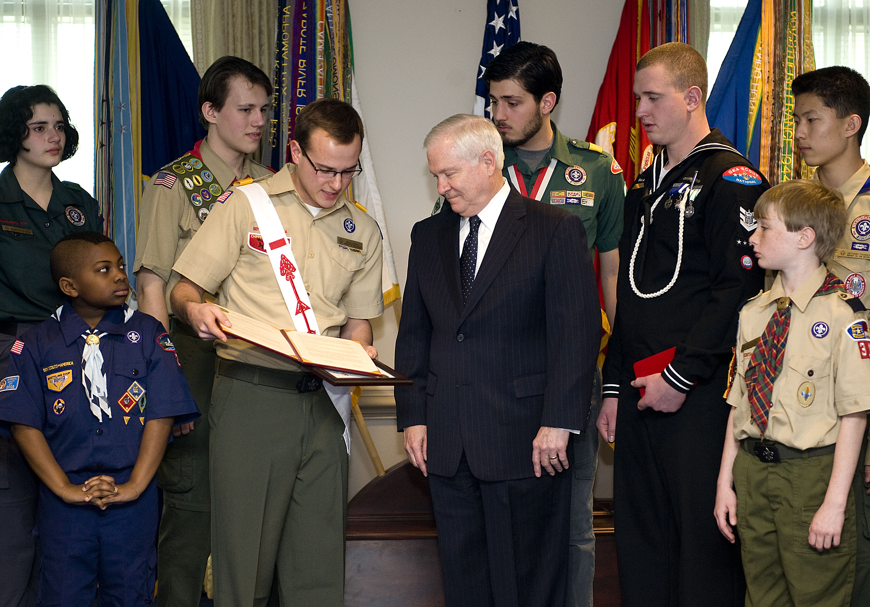 A member of the Boy Scouts of America presents the Annual Report to the Nation to Secretary of Defense Robert M. Gates in the Pentagon on March 1, 2010.